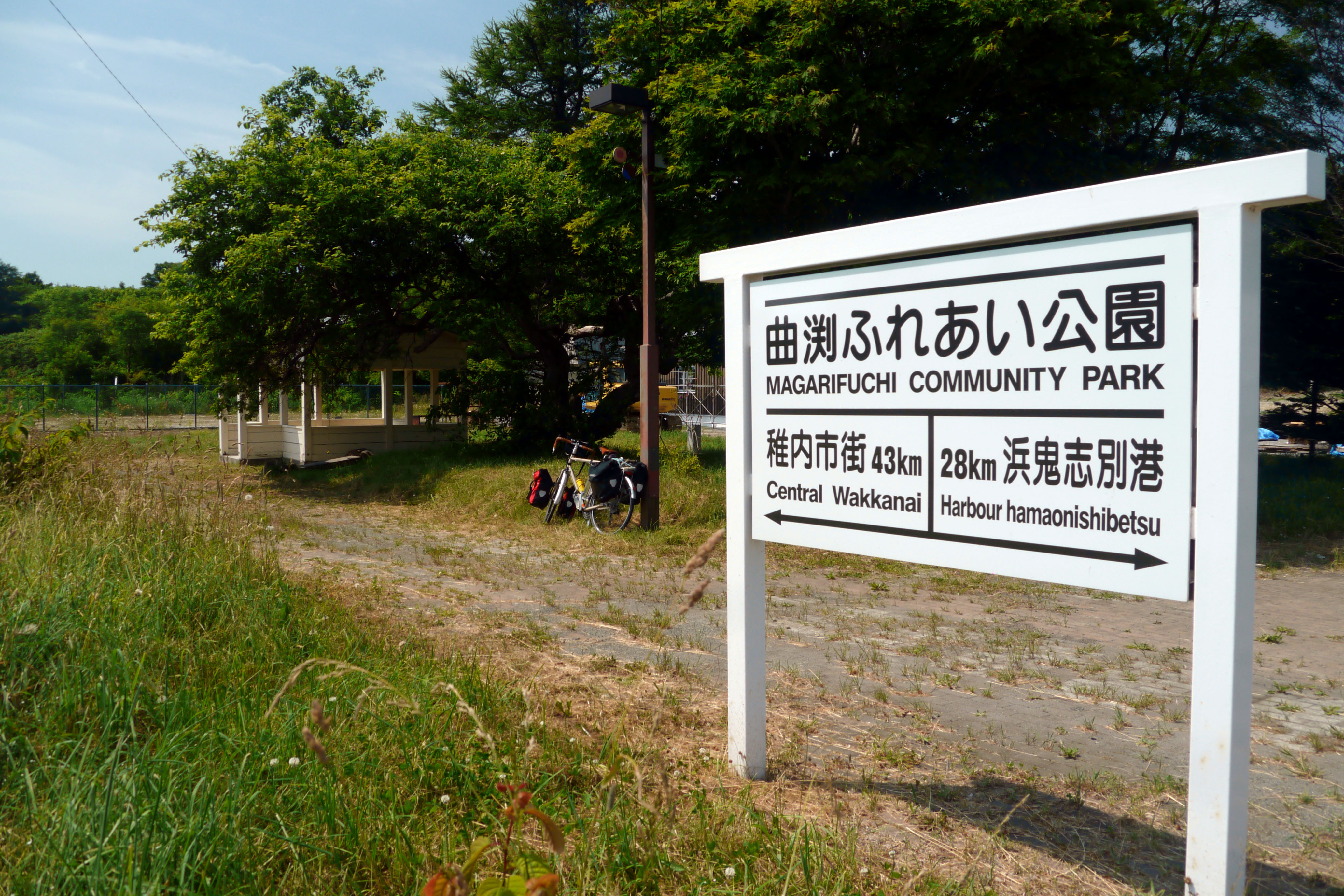 The remains of Magarifuchi Station of the Tenpoku Line in Hokkaido, Japan. Photo taken on August 4, 2011.